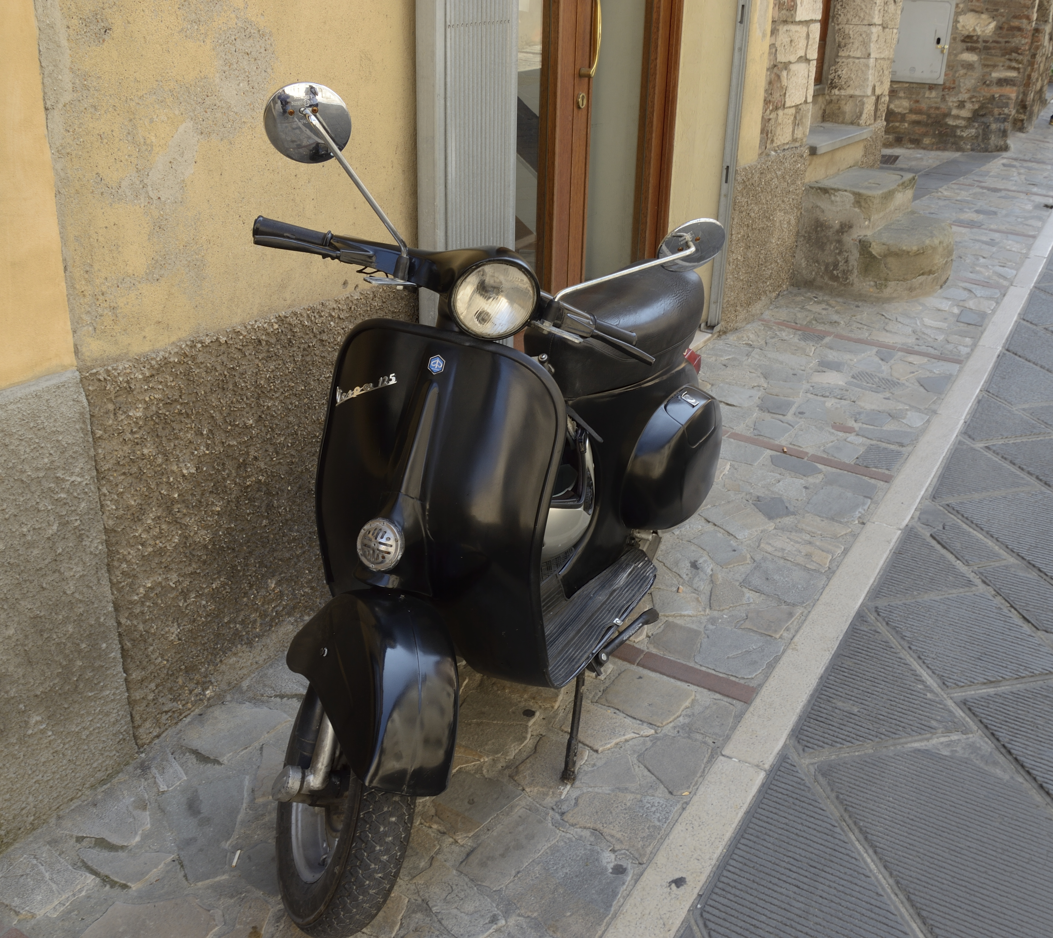 Vespa Todi